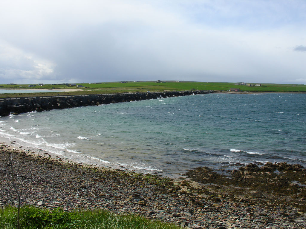 Churchill Barrier 4 from Burray toward South Ronaldsay